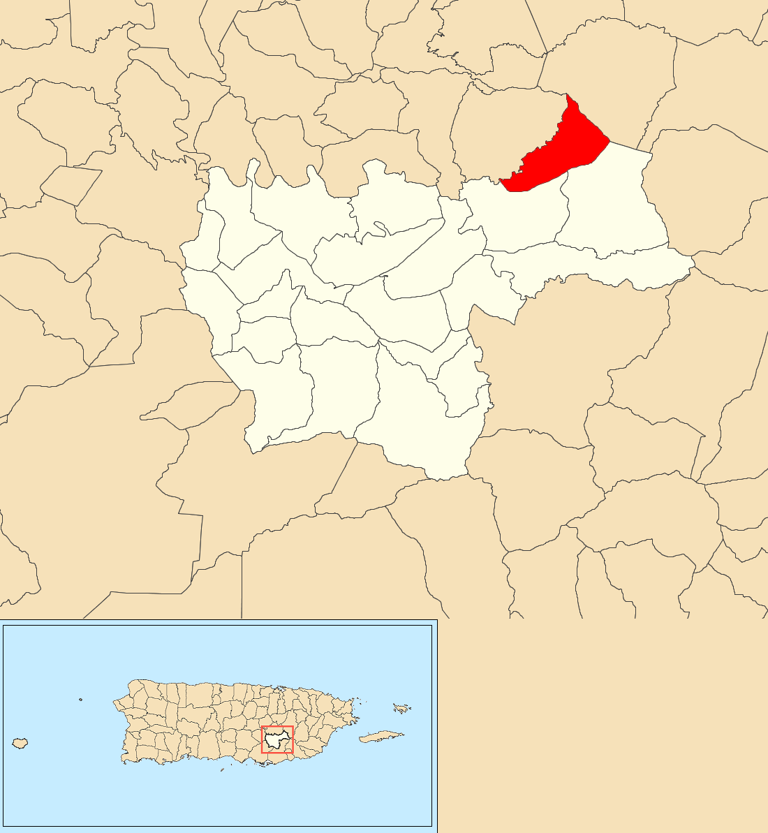 Beatriz, Cayey, Puerto Rico locator map